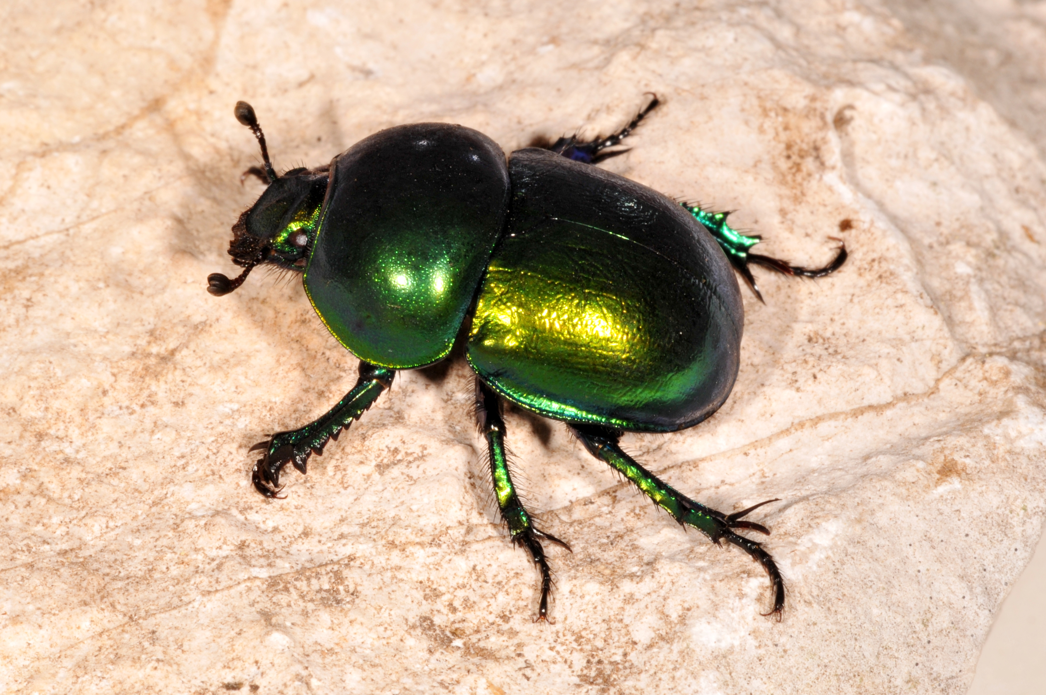 Trypocopris cf. vernalis, Croatia, Istria, Brseč 15 km south Lovran, 45°10`23,80``N 14°13`37,25``E